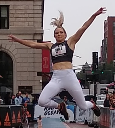 Kate Hall competing in the long jump at the Adidas Boost Boston Games in 2019.